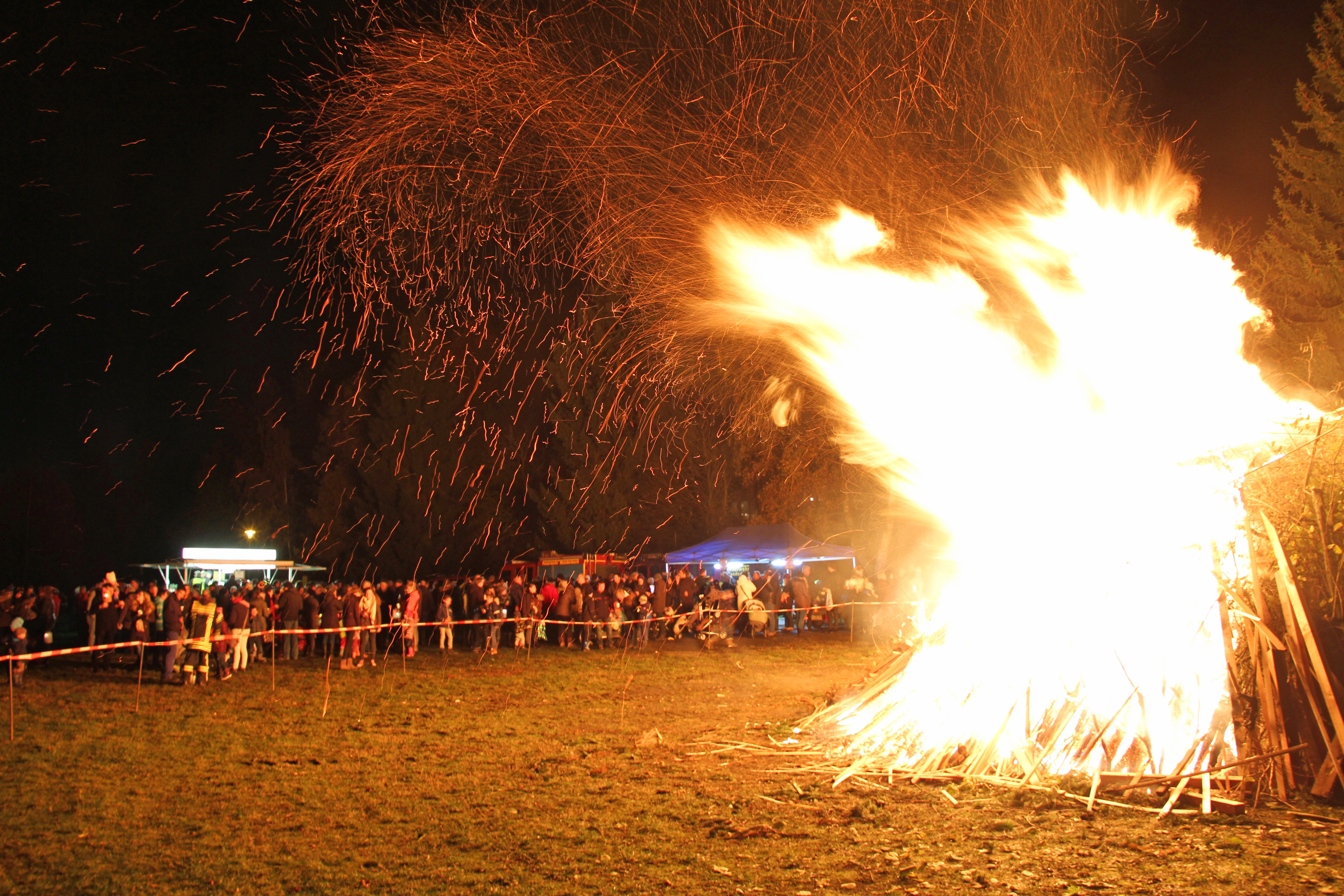 Martinsfeuer am Festplatz in Manderbach